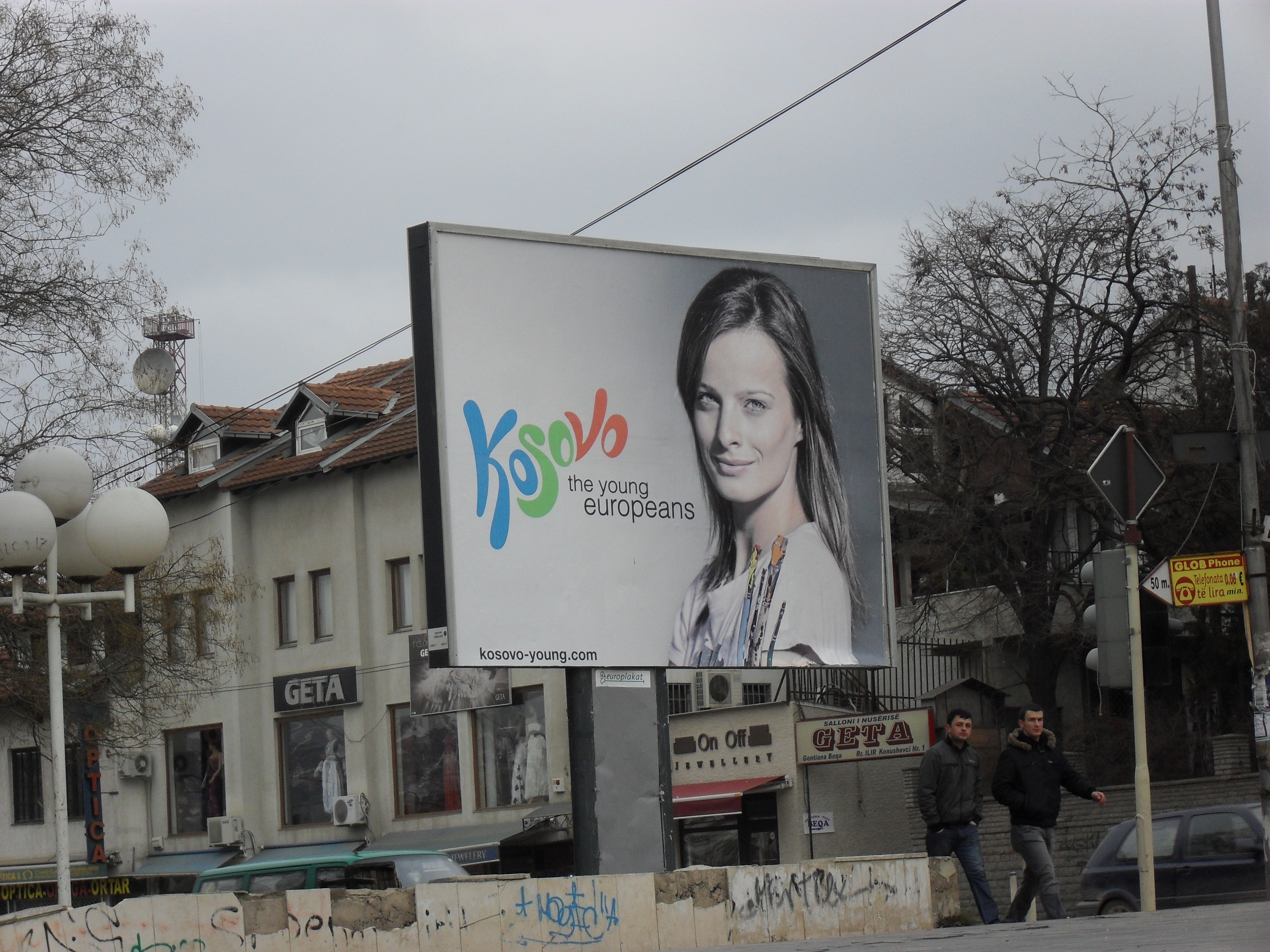 Kosovo "New European" sign in Pristina